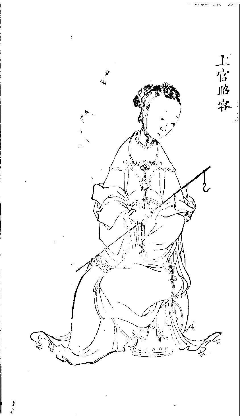 Shangguan Wan'er (664?[–21 July 710), imperial consort rank Zhaorong , posthumous name Wenhui.She was a poet, writer and politician of the Tang Dynasty.